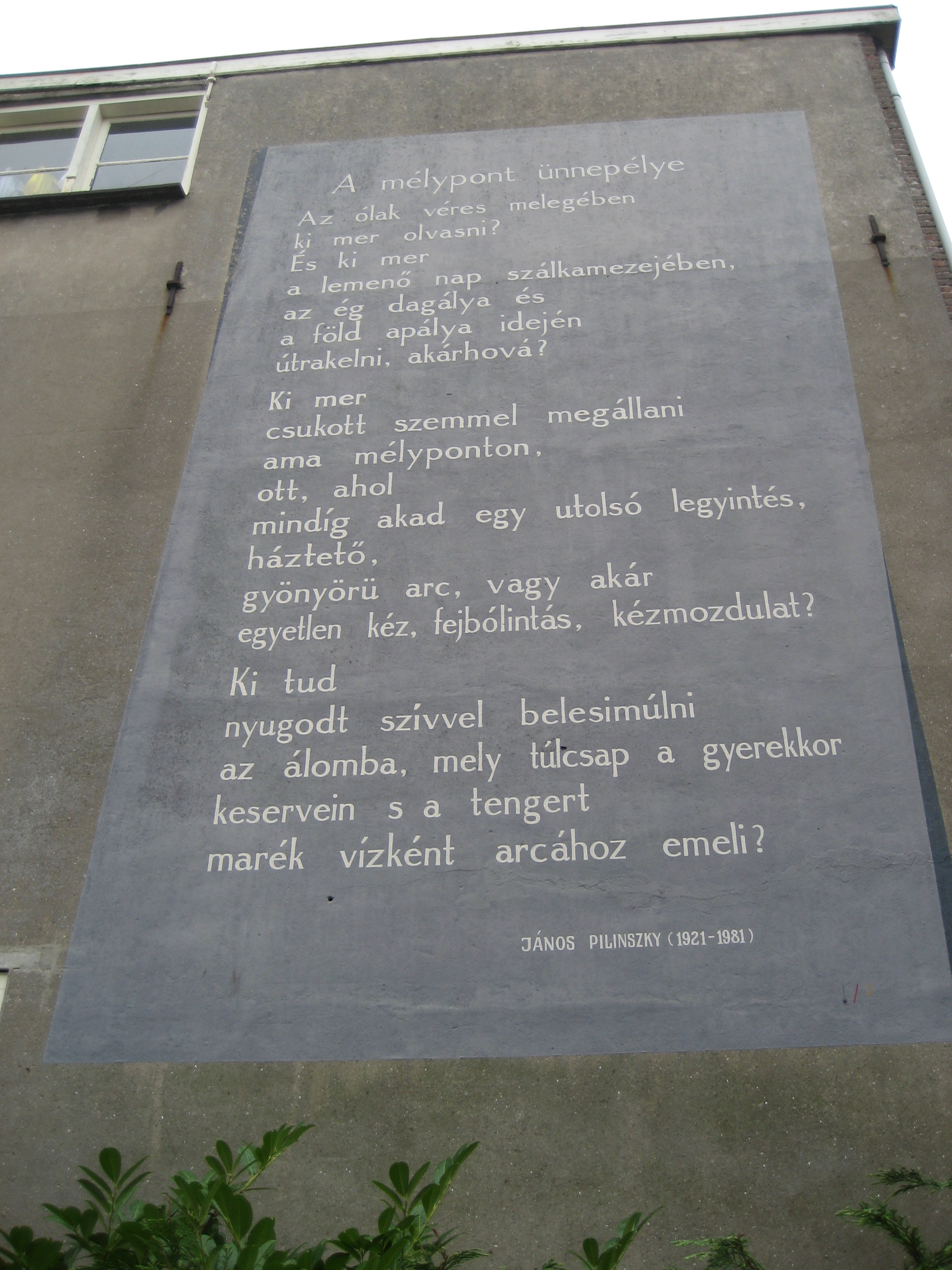 János Pilinszky: A mélypont ünnepélye (Feest van het dieptepunt) Poem on a wall in Leiden (corner Lijsterstraat and Rijnsburgerweg)